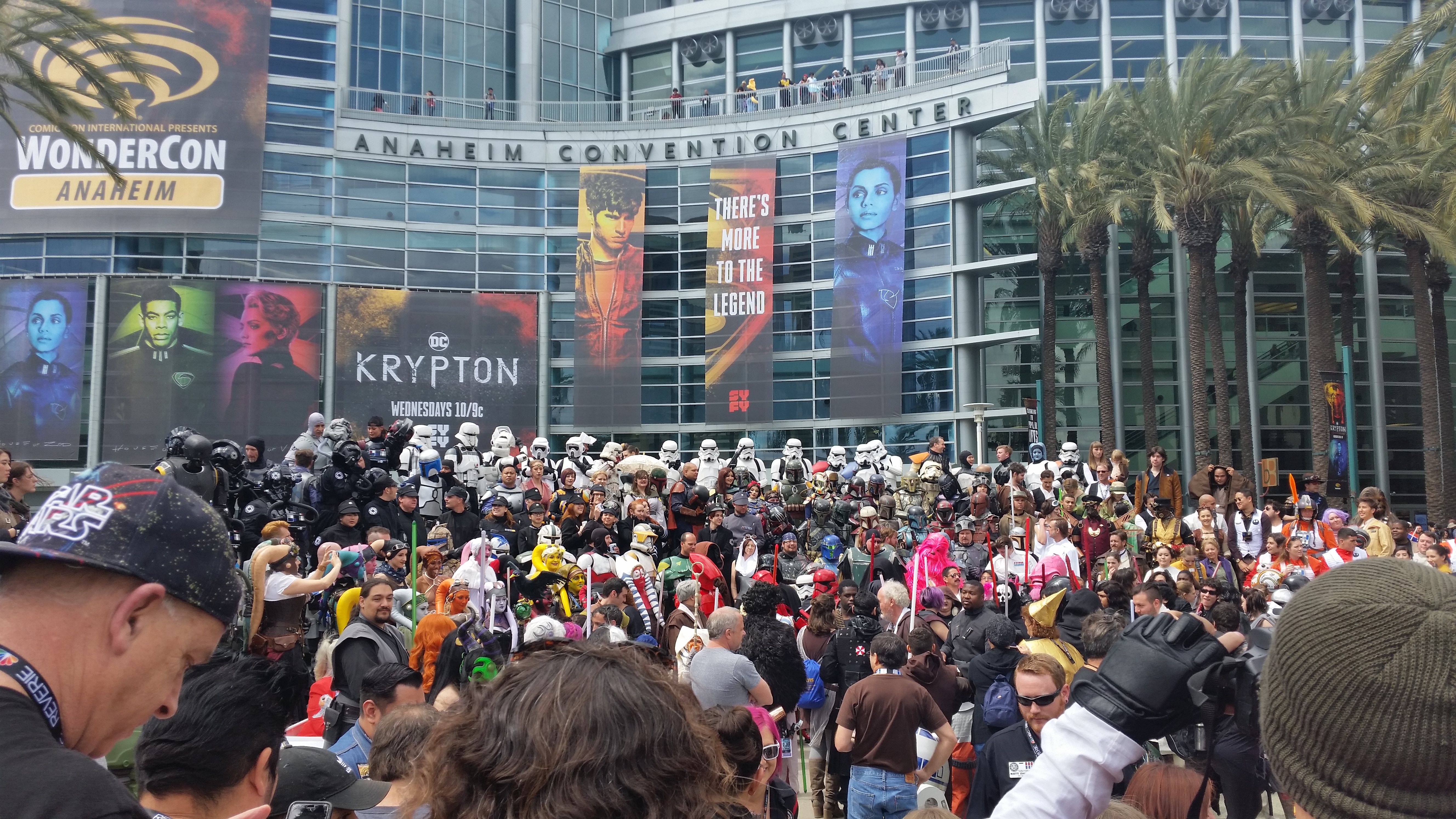 A group of Star Wars cosplayers outside of WonderCon 2018